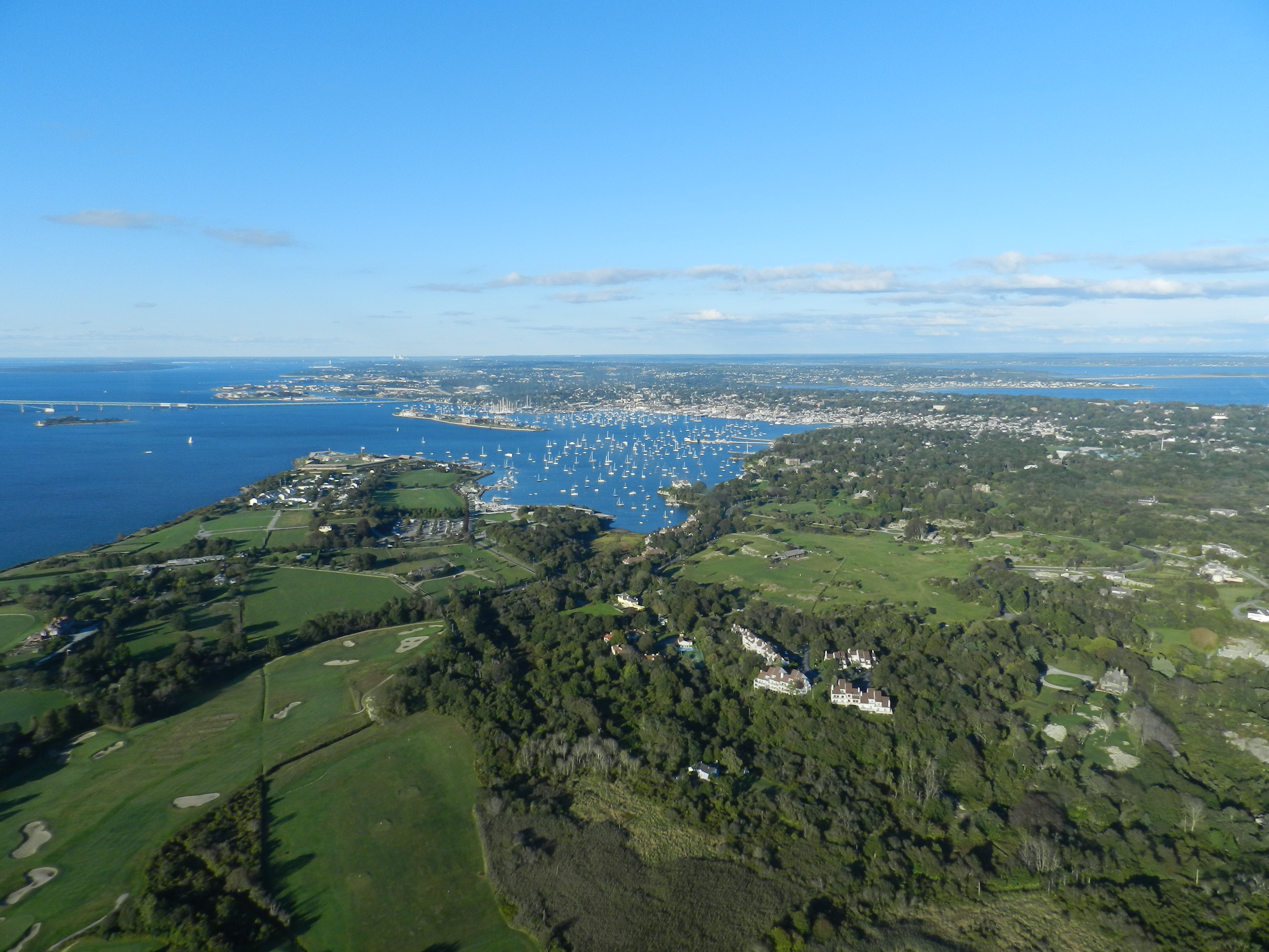 Newport Rhode Island Aerial View